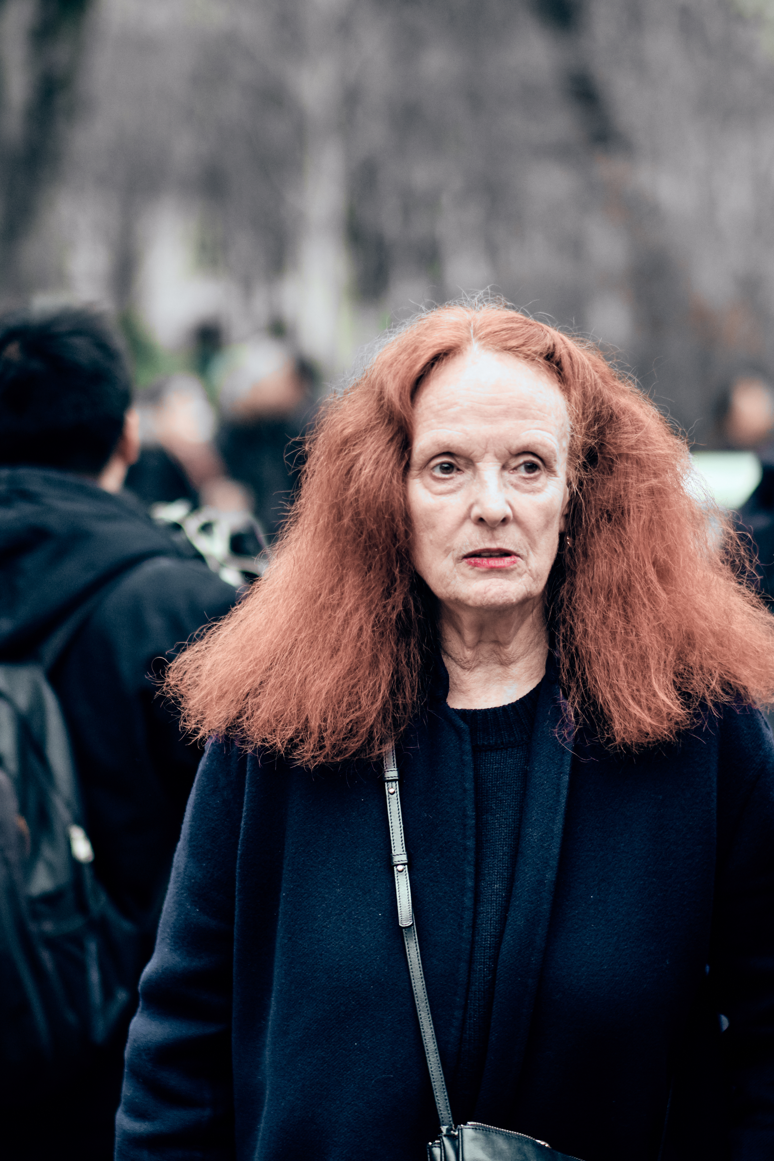 Grace Coddington at Paris Fashion Week RTW Autumn/Winter 2017